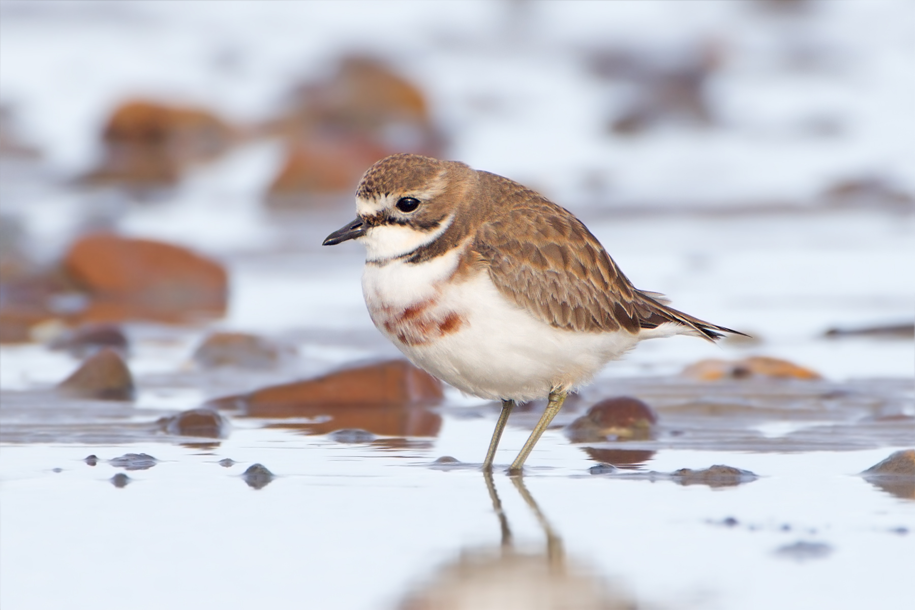 Double-banded Plover (Charadrius bicinctus) transitioning to breeding plumage, Ralph's Bay, Lauderdale, Tasmania